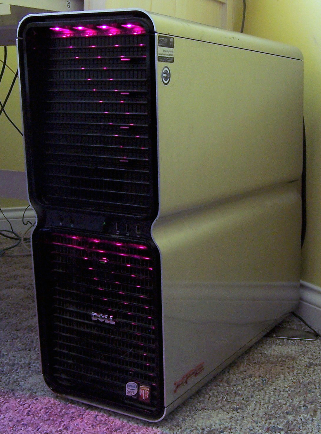 A Dell XPS 700 computer